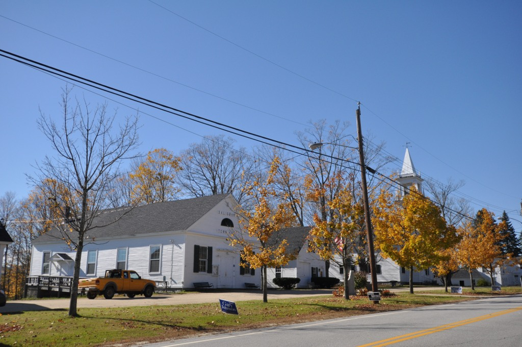 The old town hall and church (now housing the local historical society) in Salisbury, New Hampshire.